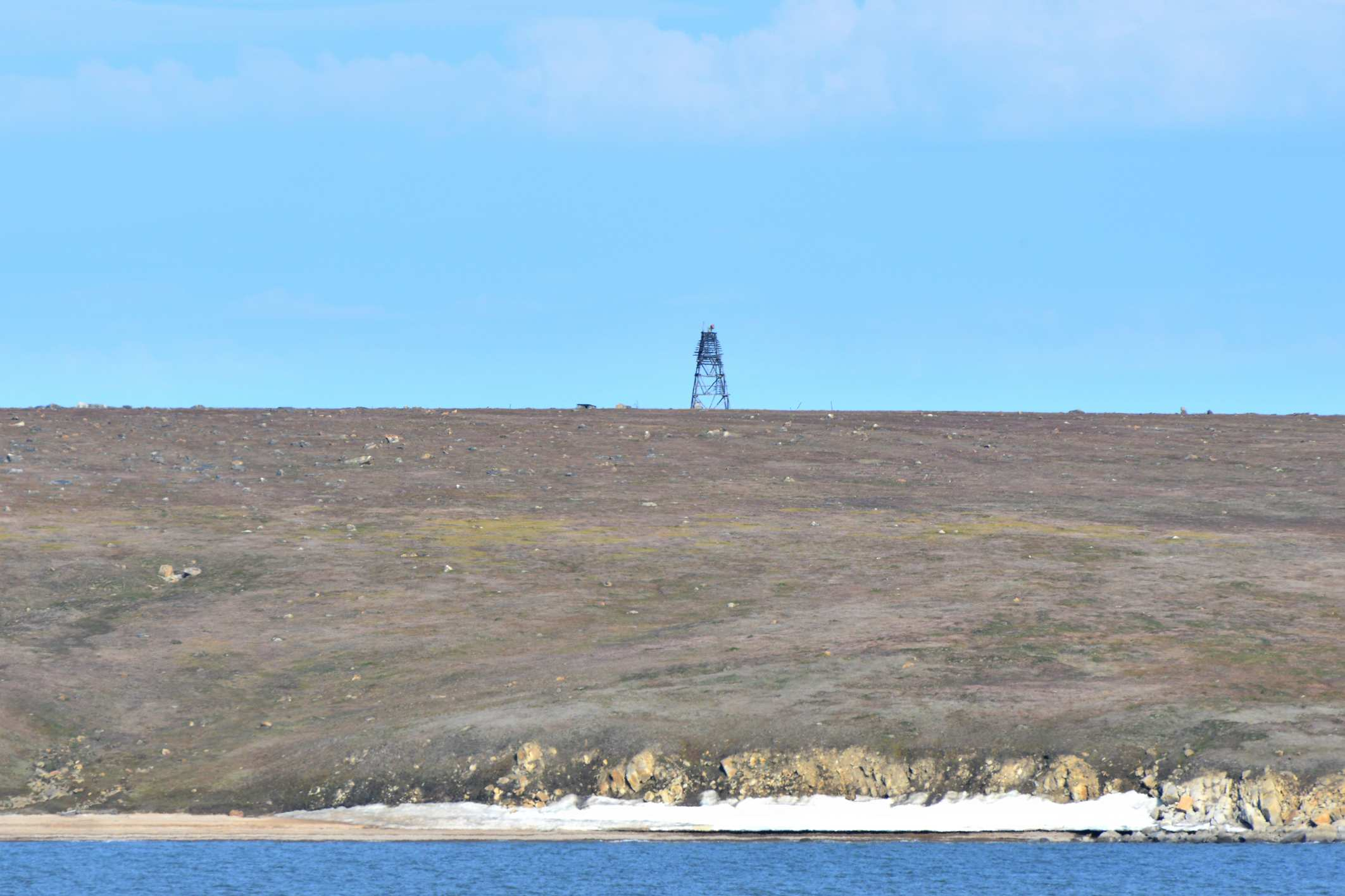 Krestovskiy Island (Medvezhyi Islands, Russia; 70°48’N, 160°40’E)